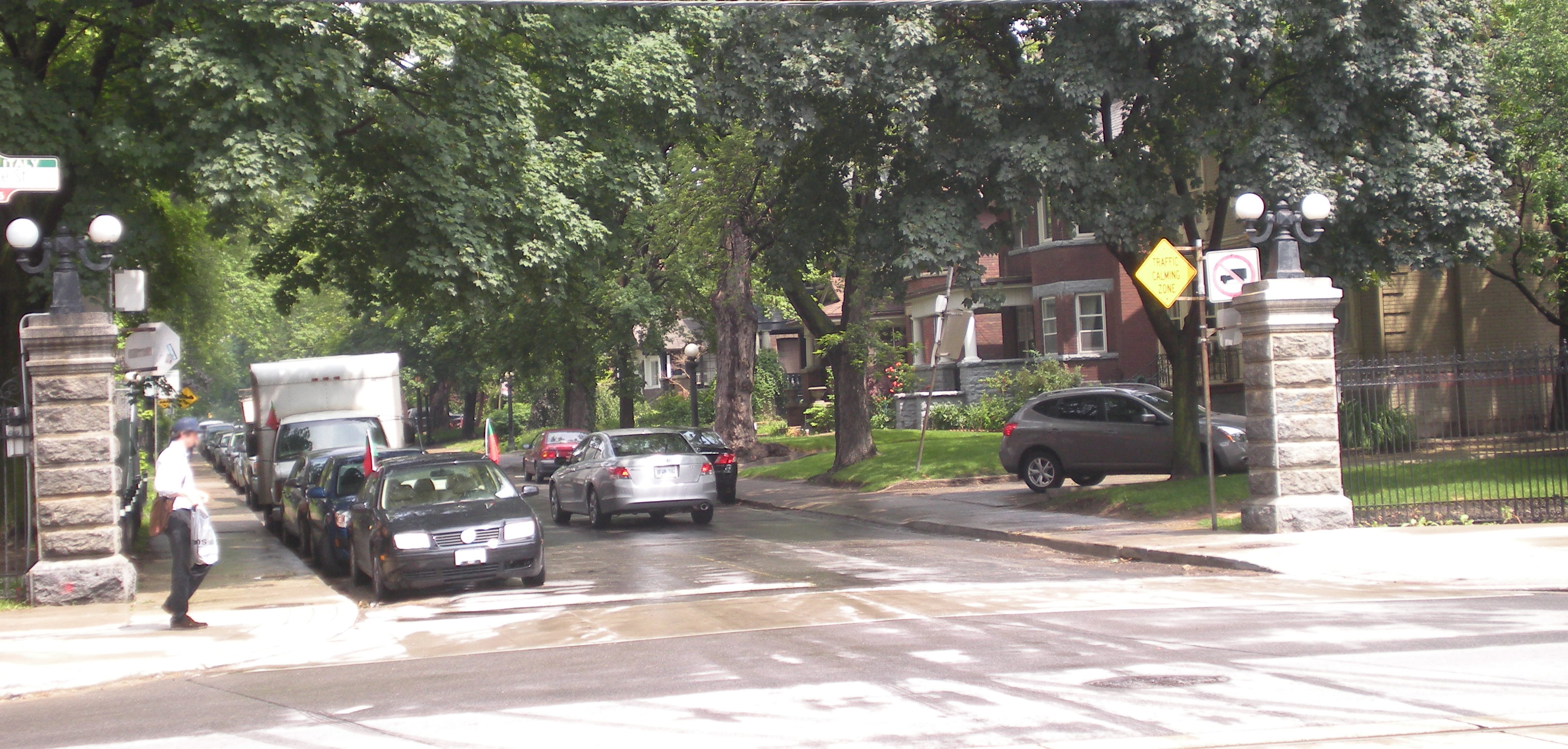 Palmerston Boulevard, Toronto, looking north from College. St.